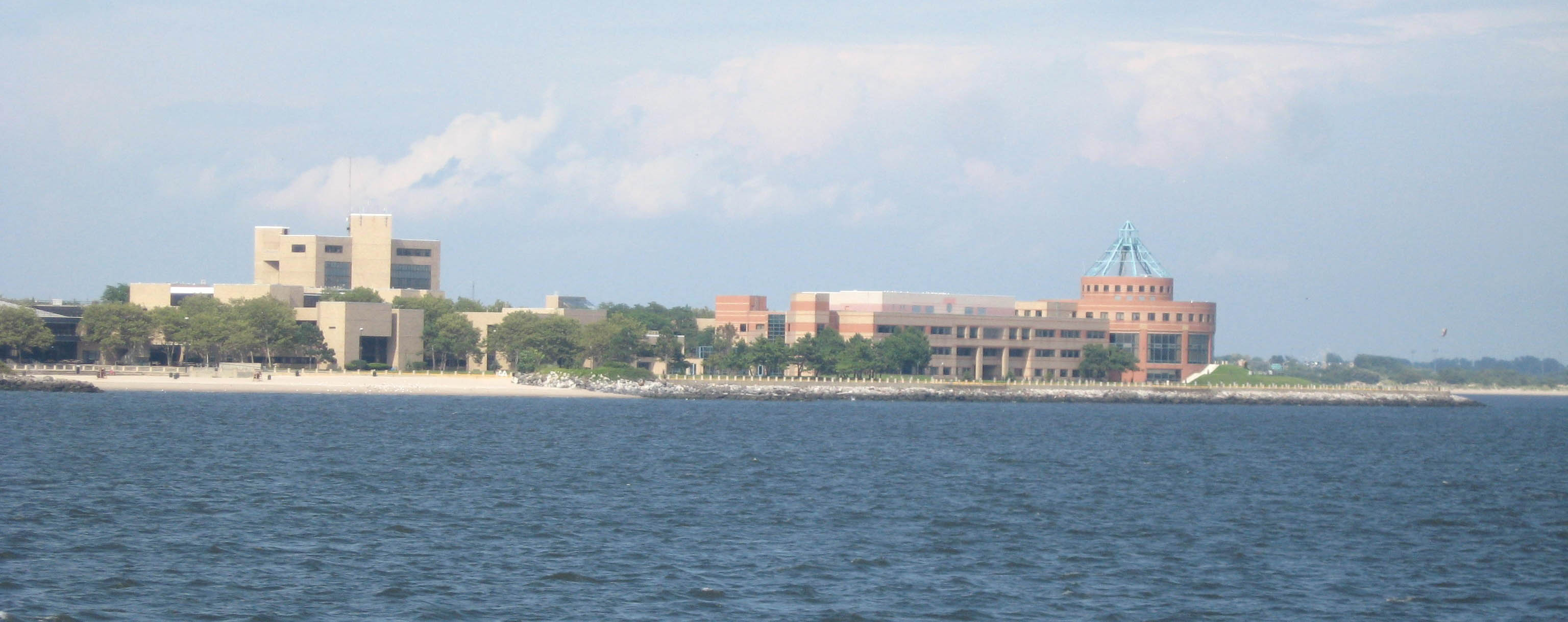 Looking north at Kingsborough Community College from a ferry in Jamaica Inlet on a sunny afternoon